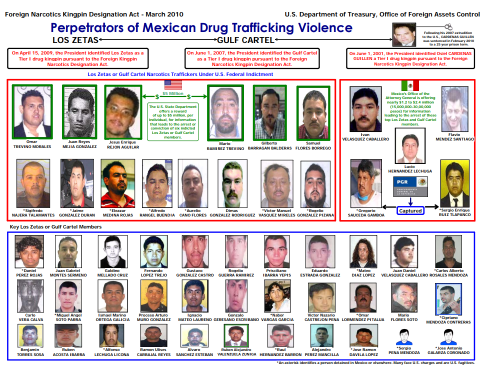 Leadership chart of the Gulf Carte and Los Zetas in March 2010.